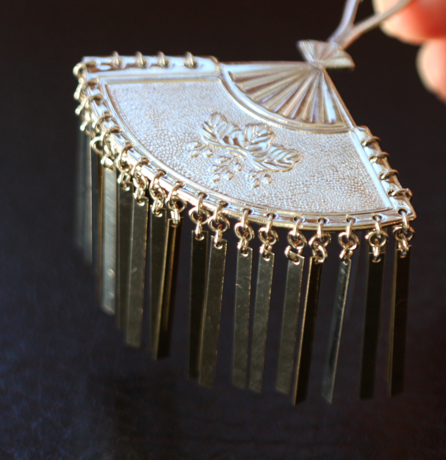 An aluminum ougi-bira. Worn by maiko and other geisha apprentices.